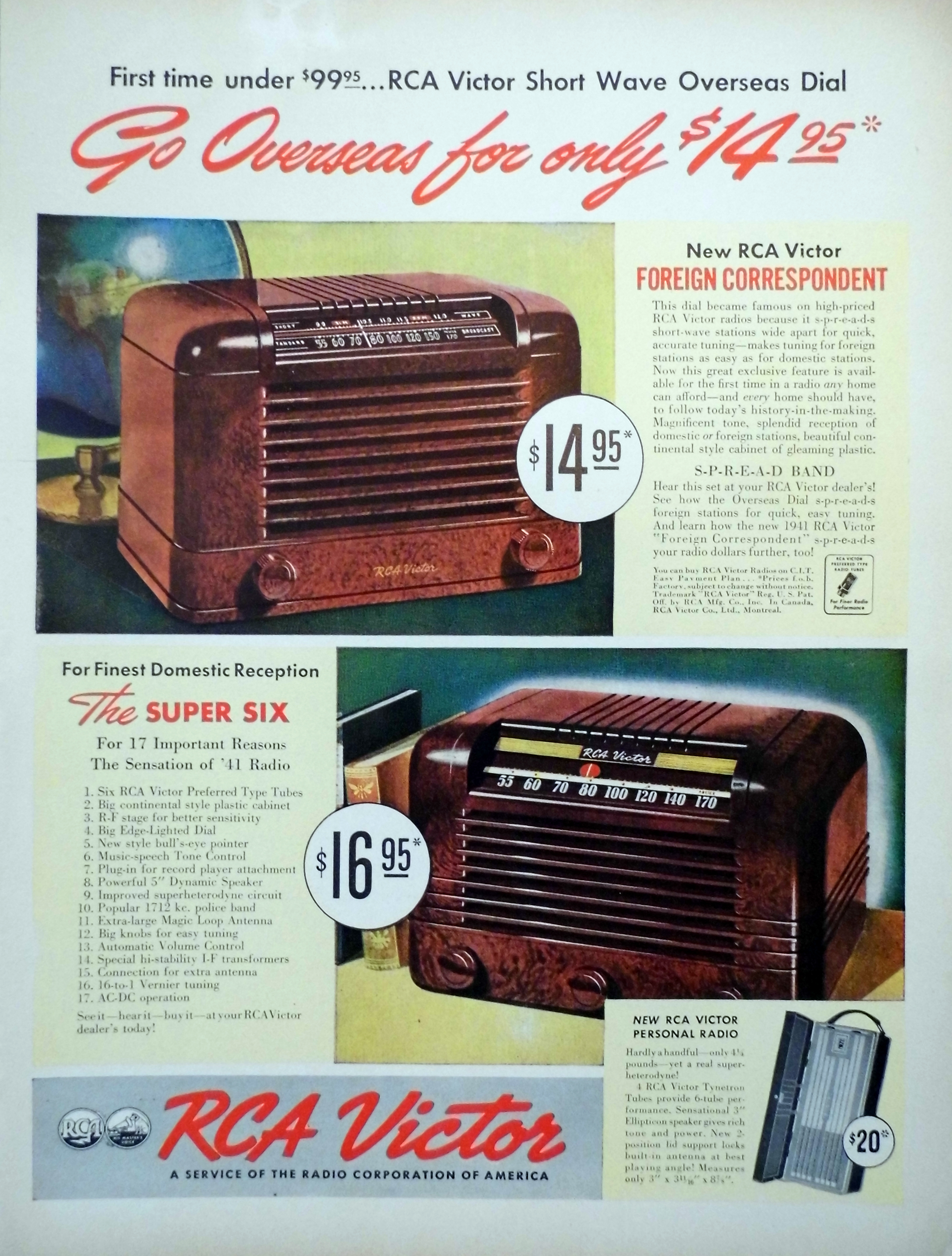 Vintage Radio Advertising - RCA Victor, "Go Overseas for only $14.95", Circa 1941